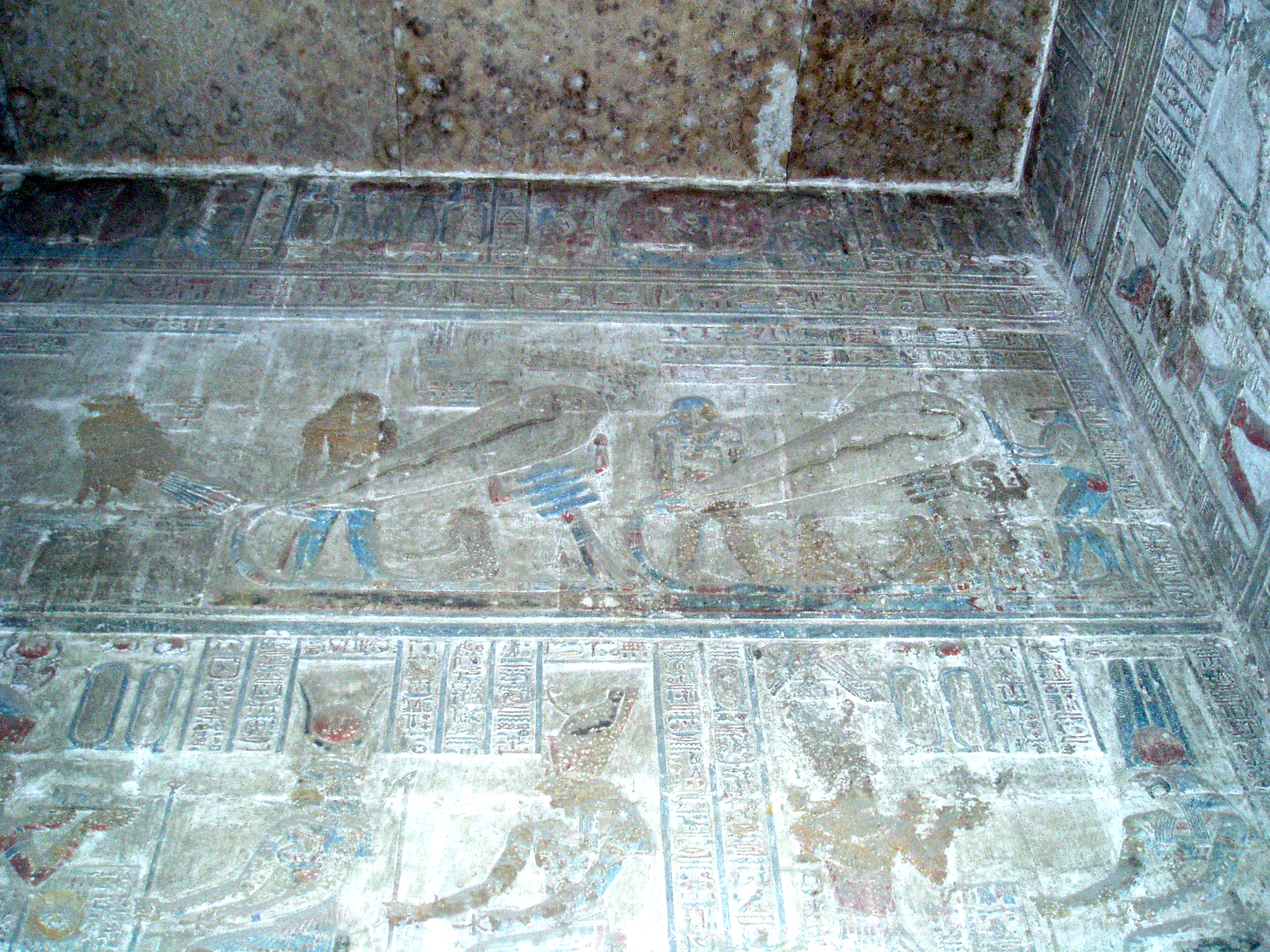 Hieroglyphs at Dendera, Egypt